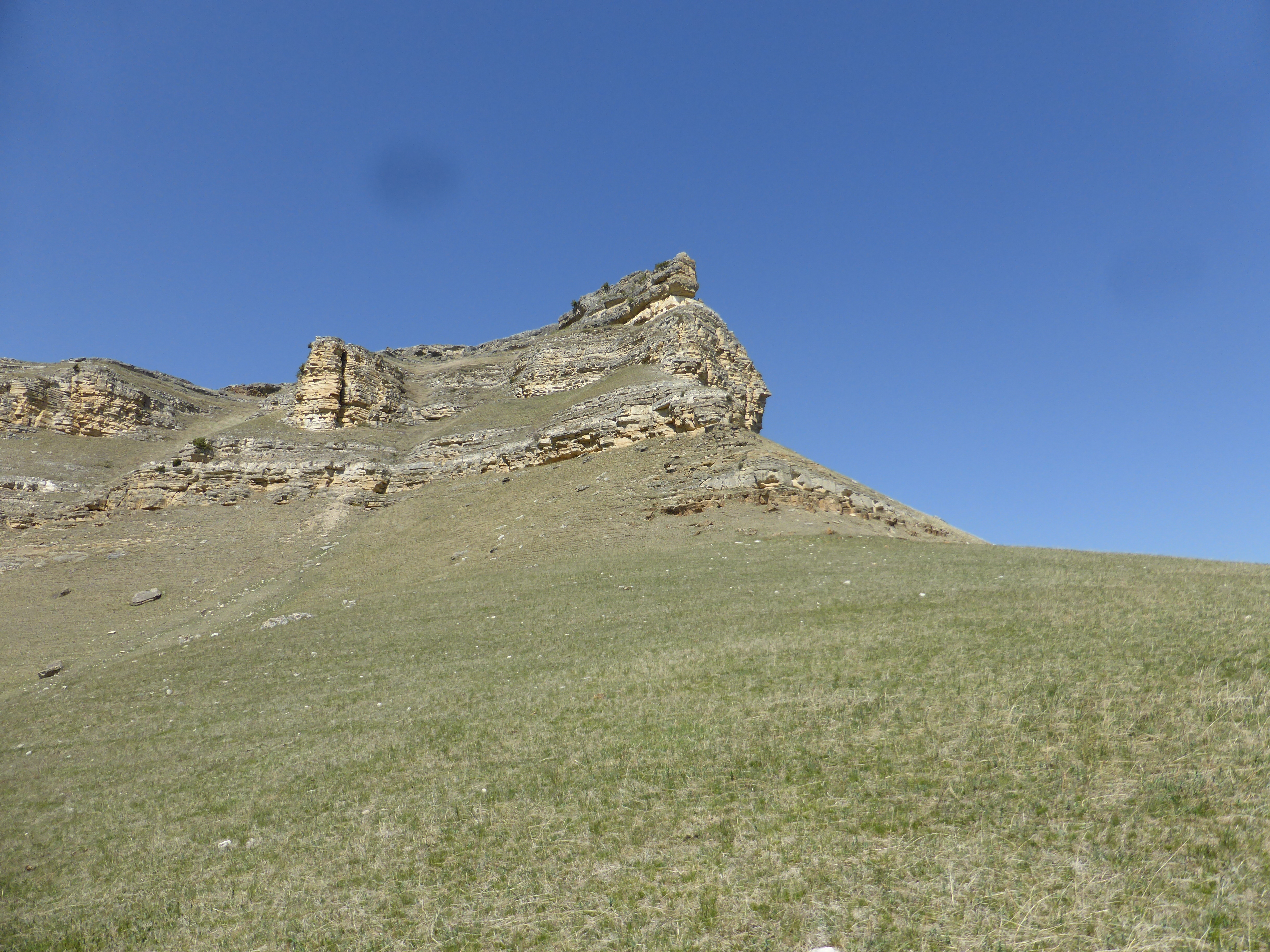 Rock Razryv